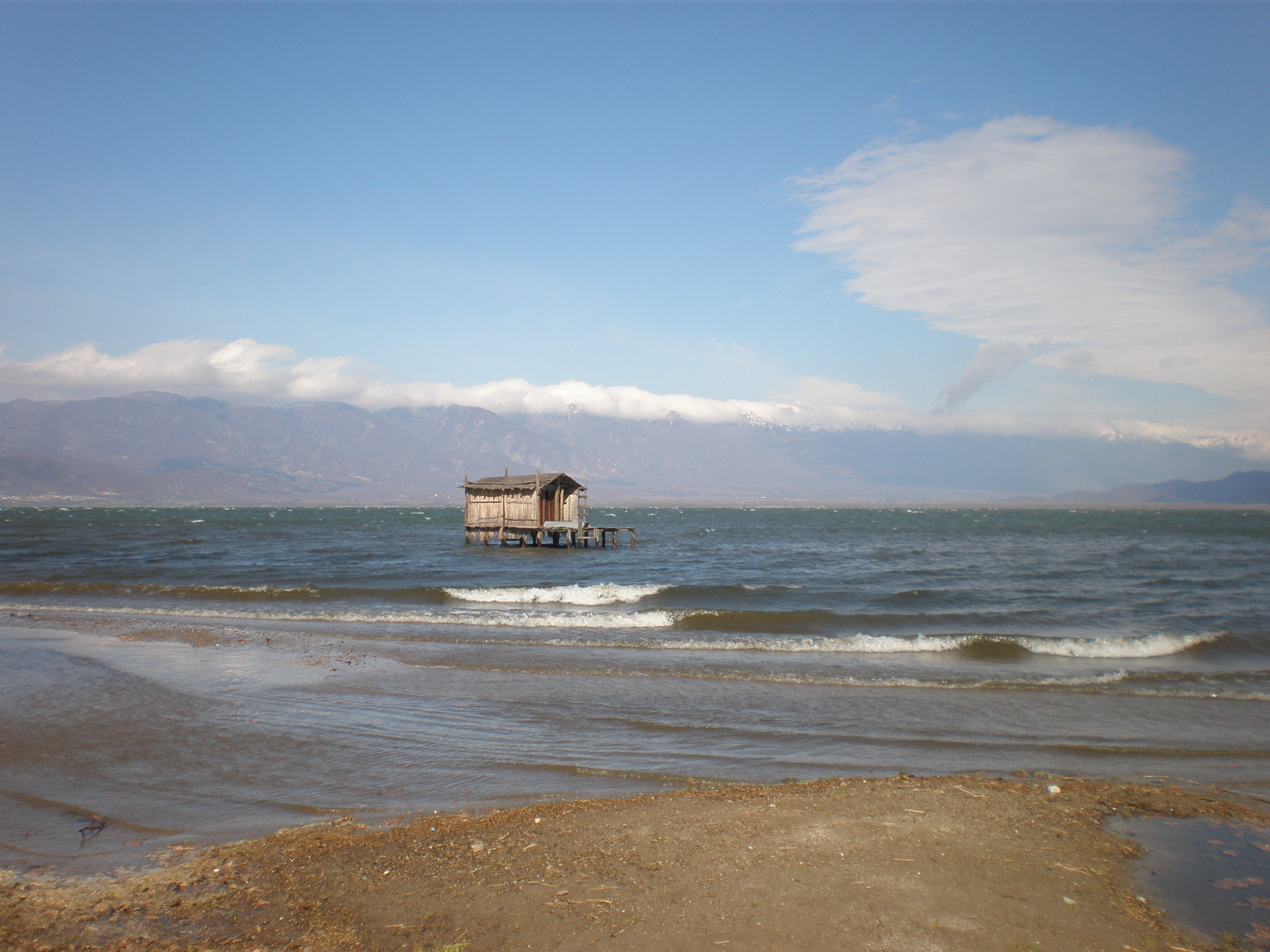 Dojran Lake, Macedonia